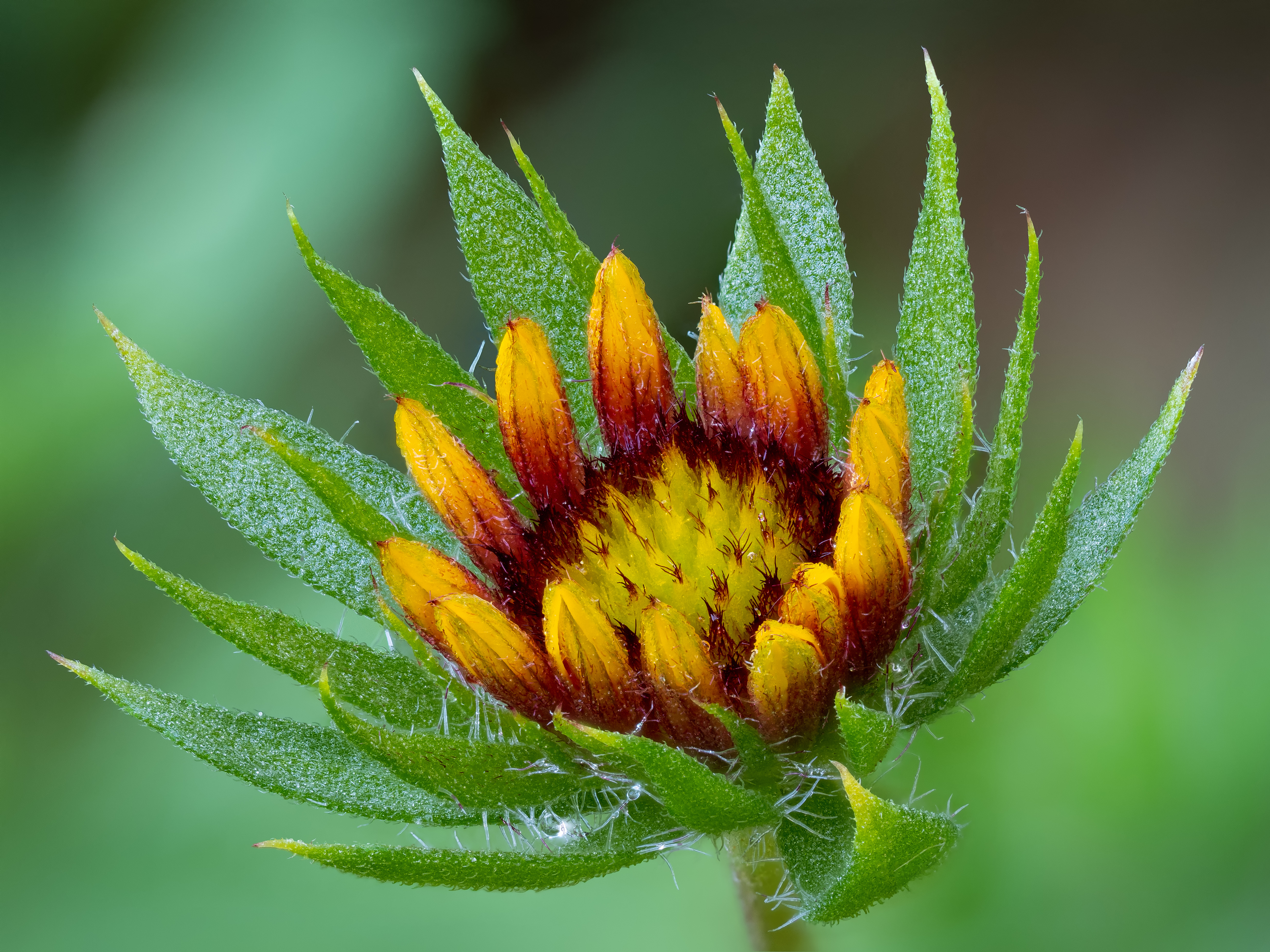 Emerging flower of a cockade flower (Gaillardia aristata) Stacked with Helicon Focus from 28 pictures